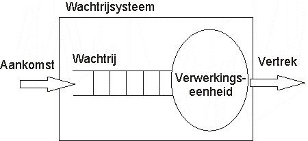 Basic structure of a queueing system.